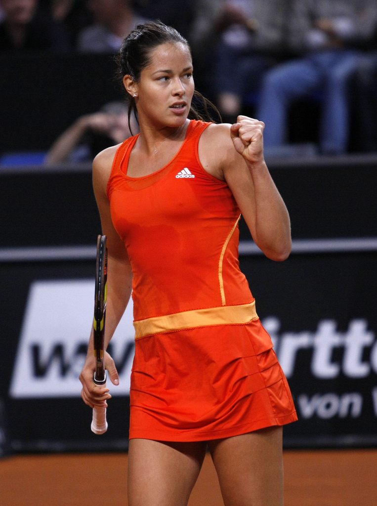 Ana Ivanovic of Serbia reacts after winning a point against Agnieszka Radwanska of Poland during the first round at the Porsche Tennis Grand Prix. Radwanska won the match 7.6(4), 6.4. April 27, 2010, Stuttgart.